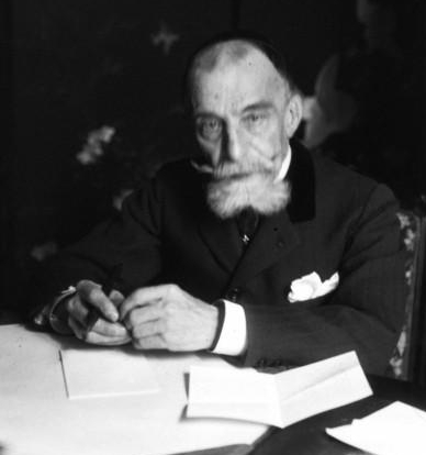 French writer and journalist Ernest Daudet (1837-1921)